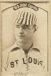 James Edward "Tip" O'Neill, a Canadian professional baseball player active from 1875 to 1892.